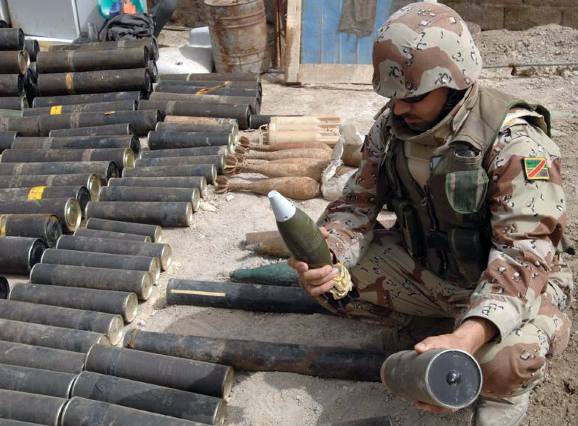 An Iraqi soldier from the 1st Iraqi Army examines one of the more than 160 mortars found during Operation Charge of the Knights in Basra, April 19